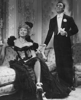 Mirtha Legrand y Tito Climent- actores argentinos